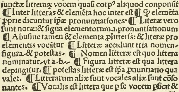 Excerpt of a page from: Villanova, Rudimenta Grammaticæ. Printed by Spindeler 1500 in Valencia (Spain). Showing several pilcrow signs in the form common at that time. Information according to: Updike, Daniel Berkeley: Printing Type – their History, Forms, and Use. Boston (USA), 1922. Vol. I, p. 107. Scan taken from: ibid., insertion after p. 108.